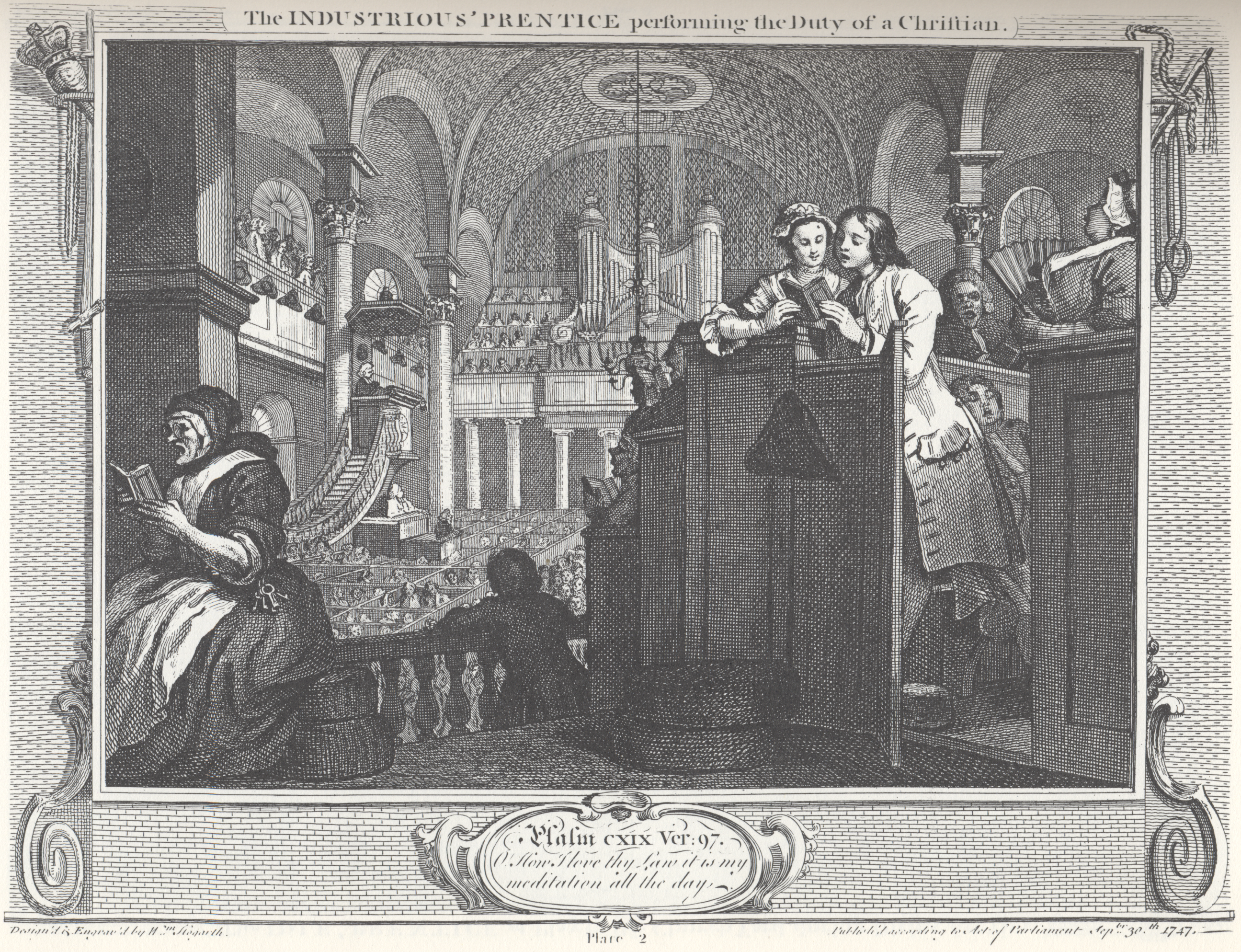 William Hogarth - Industry and Idleness, Plate 2; The Industrious 'Prentice performing the Duty of a Christian